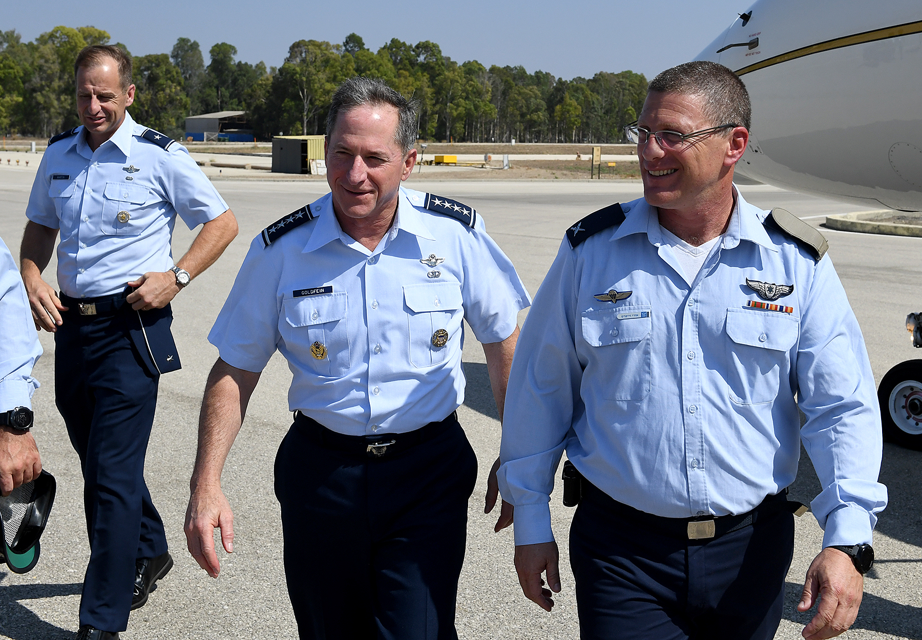 Chief of Staff of the United States Air Force, Gen. David L. Goldfeinlanded in Israel today for a short visit to attend the change of command ceremony of the Israeli Air Force. Gen. Goldfein also presented the Legion of Merit (degree of Commander) to outgoing IAF Commander Maj. Gen. Amir Eshel for “exceptionally meritorious conduct” and for his long-standing partnership with the U.S. Air Force. Congratulations to Maj. Gen Eshel and to incoming IAF Commander Maj. Gen Amikam Norkin.